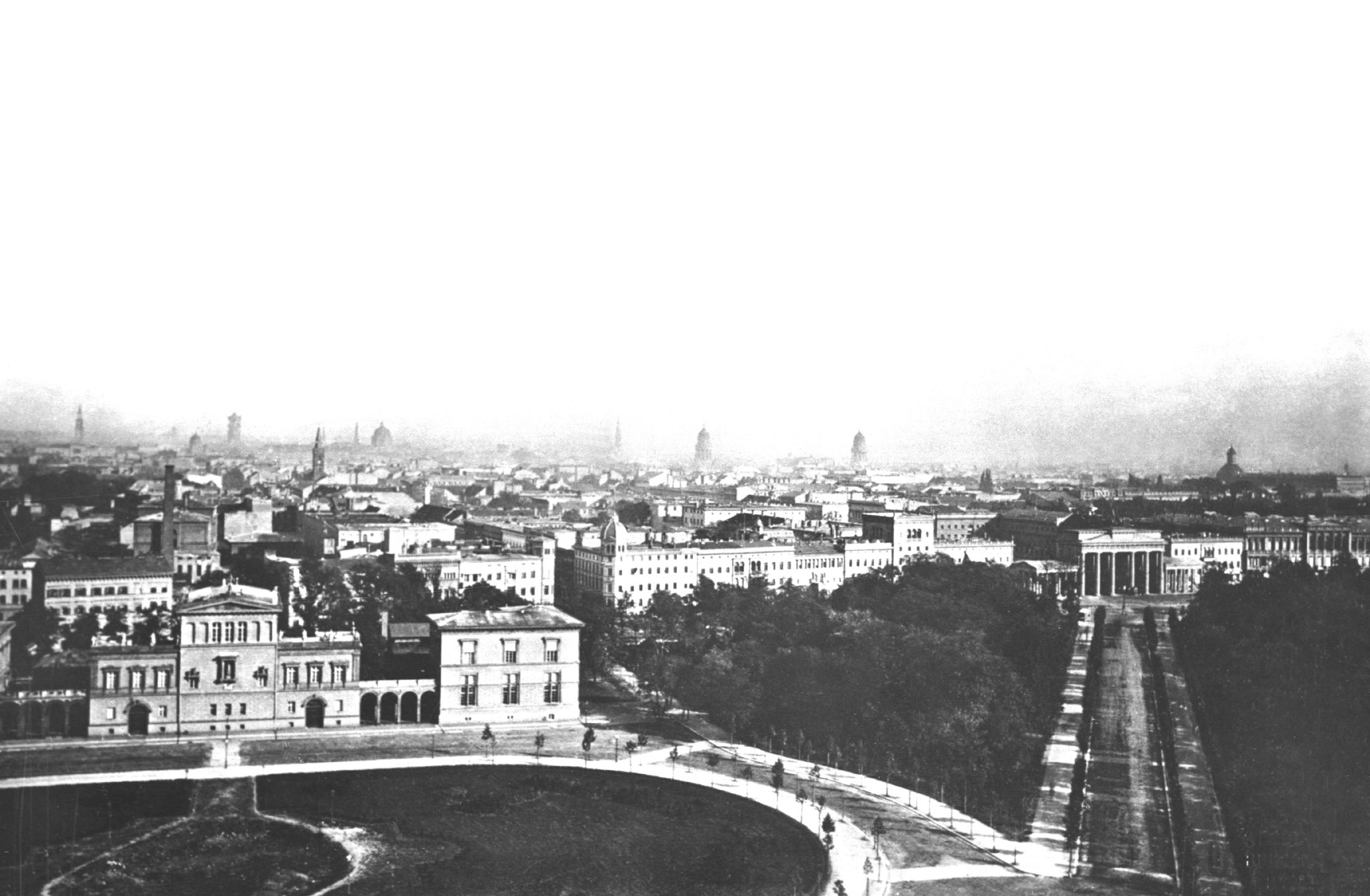 View from the Siegessäule in Berlin ca. 1884Looking eastwards.